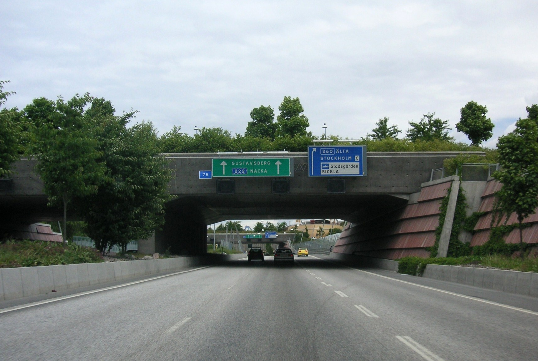 Södra länken in Stockholm